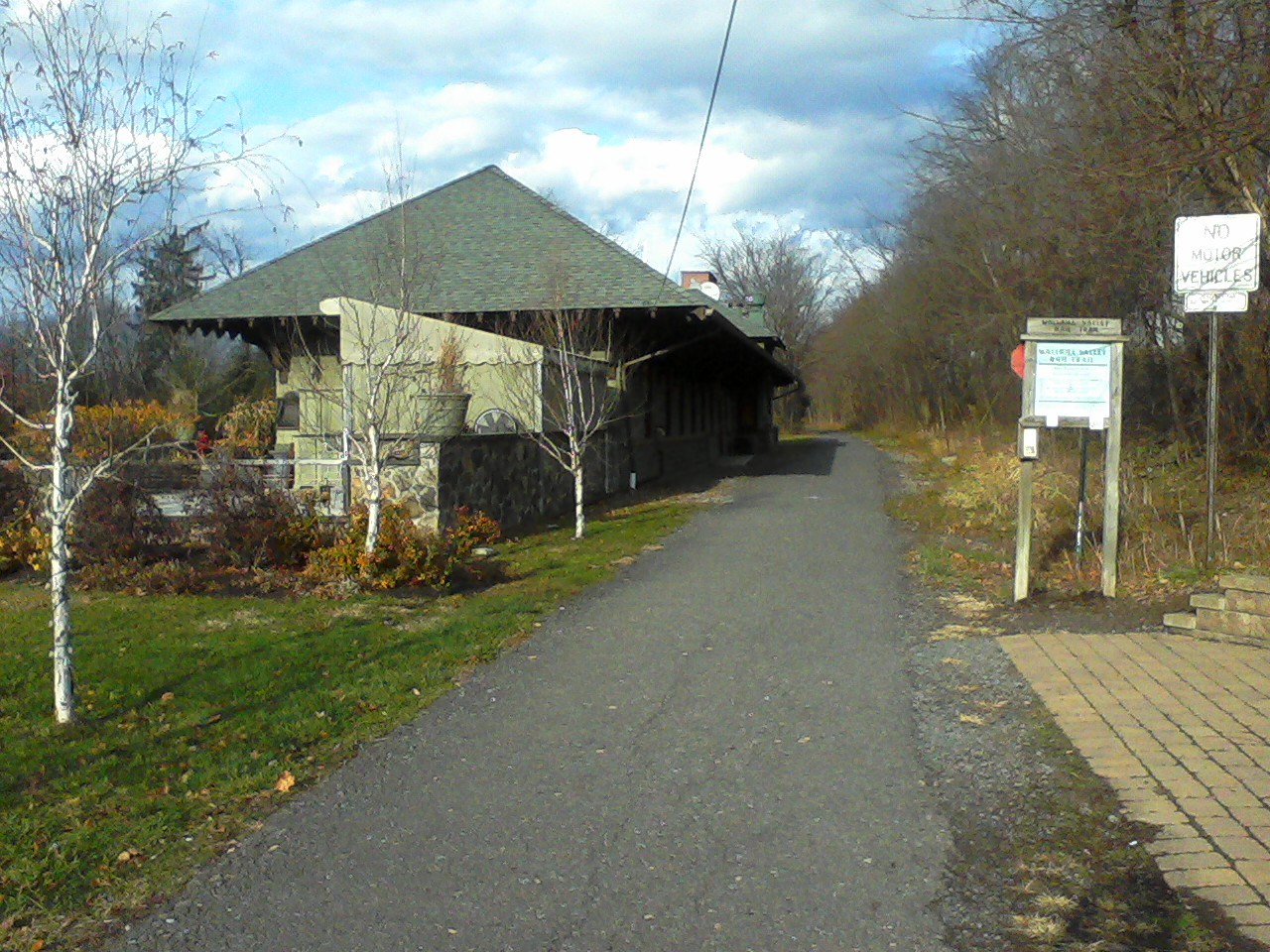 The former train station in New Paltz, New York, currently a restaurant.